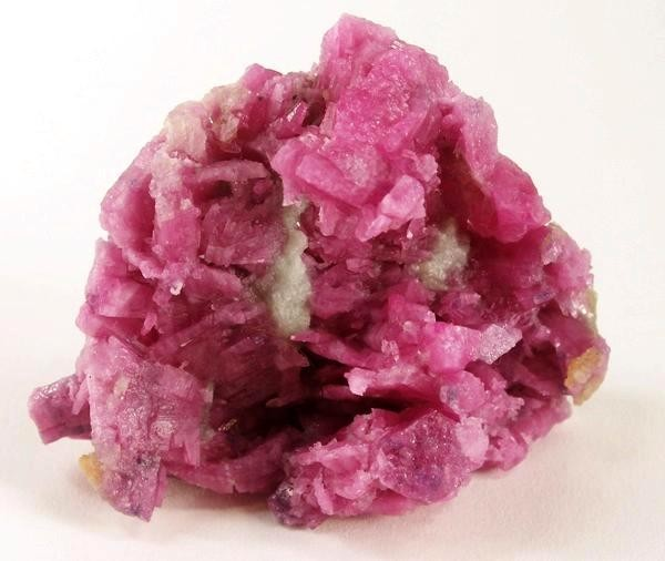 Corundum (Var.: Ruby) Locality: Chumar Mines (Chhumar Mines), Dhading District, Bagmati Zone, Nepal (Locality at ) Size: 5.2 x 4.2 x 3.2 cm. A rich, 3-dimensional and beautiful specimen of solid, crystalllized, pigeon’s-blood-red ruby from Nepal. The crystals have good lustre and reach 2.0 cm. The tiny bit of white marble is a nice accent. Old material, from the late 1980s.